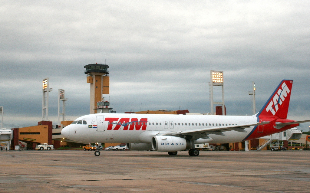 Avión de TAM Airlines en el Aeropuerto Internacional de Asunción